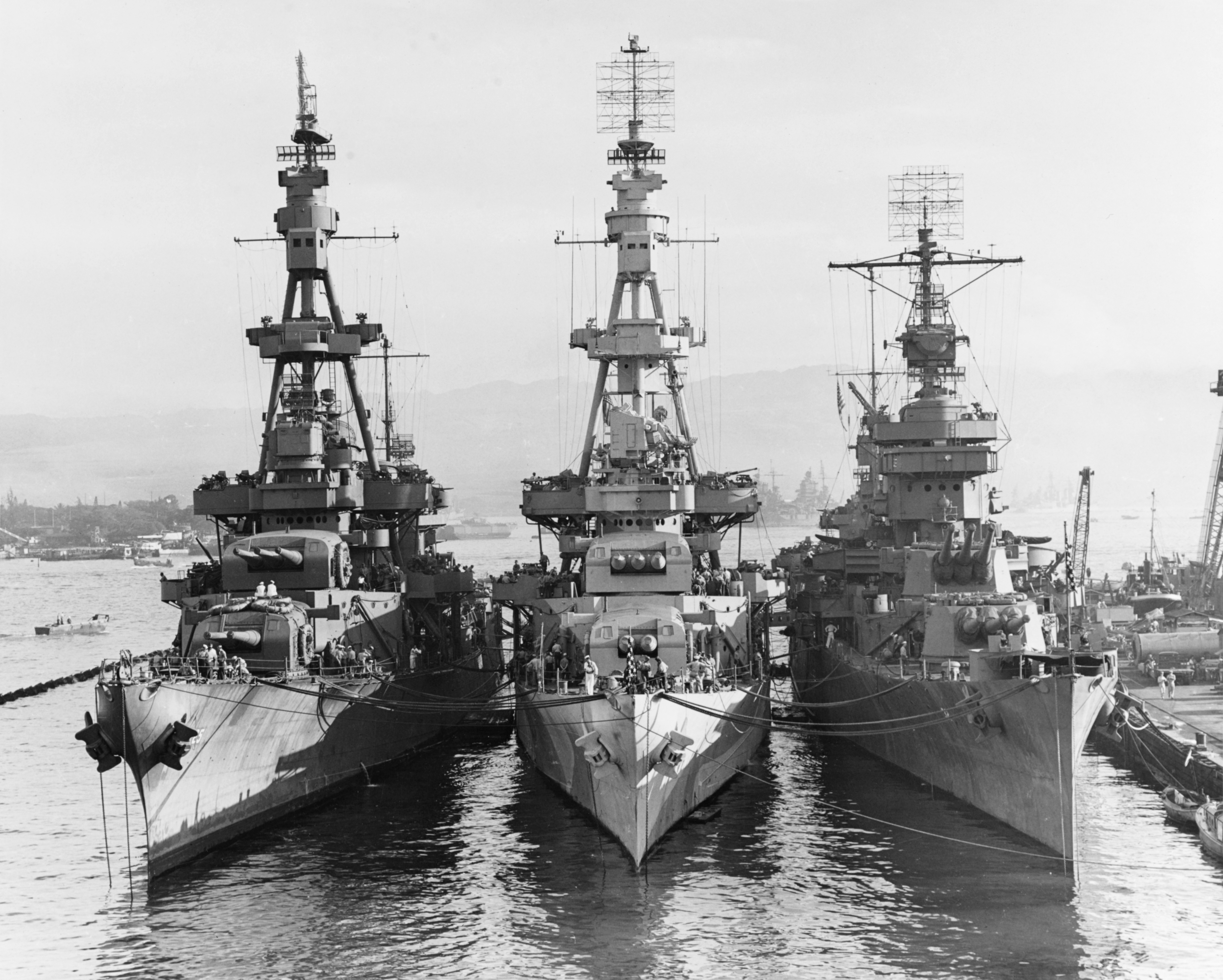 The U.S. Navy heavy cruisers USS Salt Lake City (CA-25), USS Pensacola (CA-24) and USS New Orleans (CA-32) (listed from left to right) nested together at Pearl Harbor, 31 October 1943. Ford Island is at the left, with the battleship USS Oklahoma (BB-37) under salvage at the extreme left, just beyond Salt Lake City's forward superstructure. Note the radar antennas, gun directors and 203 mm guns on these three heavy cruisers. Two New Mexico-class battleships are visible in the background between Pensacola and New Orleans.